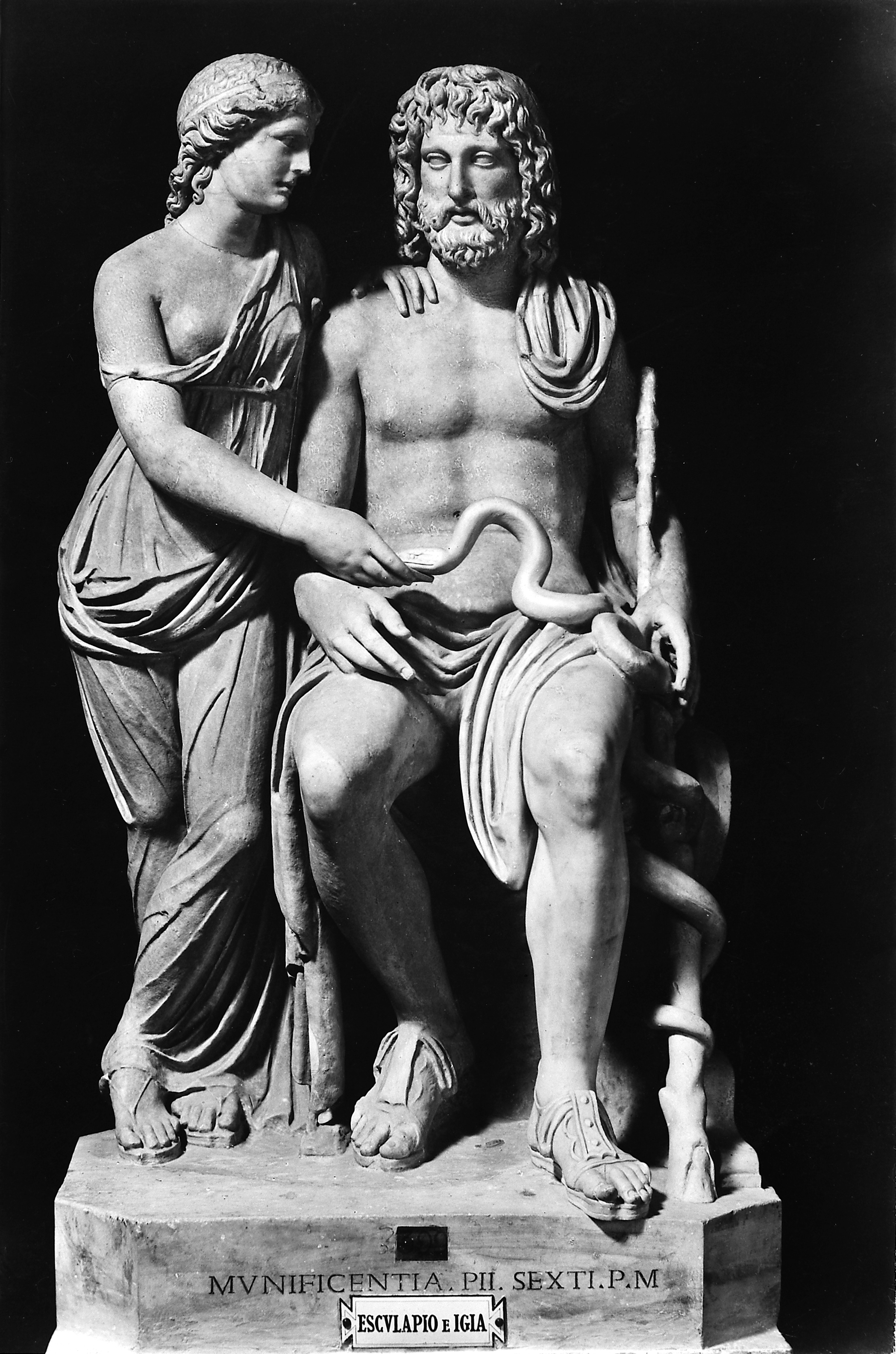 Sculpture of Aesculapius and Hygeia Wellcome Images Keywords: Hygeia; Aesculapius